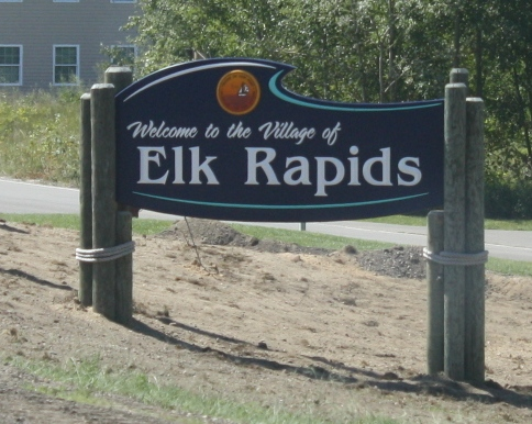 The welcome sign for Elk Rapids, Michigan on U.S. Route 31.